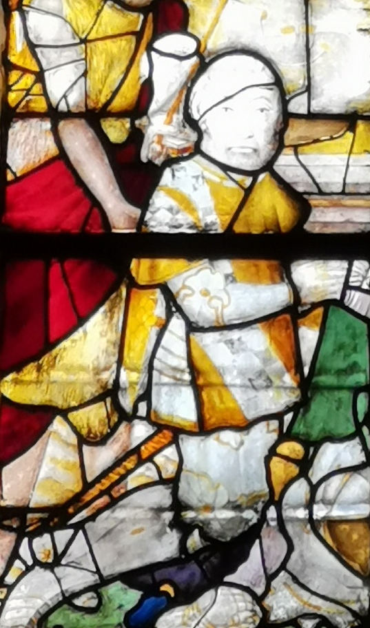 Window in the Jerusalem chapel in Bruges